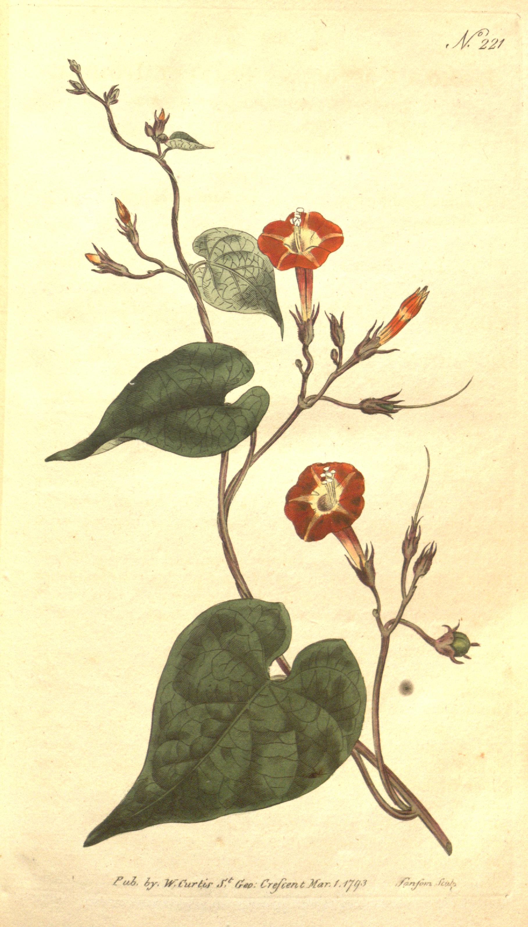 This is a plate from The Botanical Magazine, Volume 7.